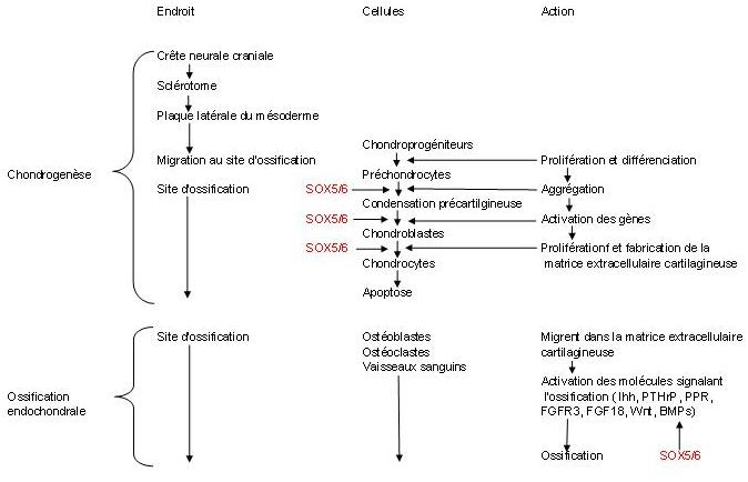 Ossification endochondrale